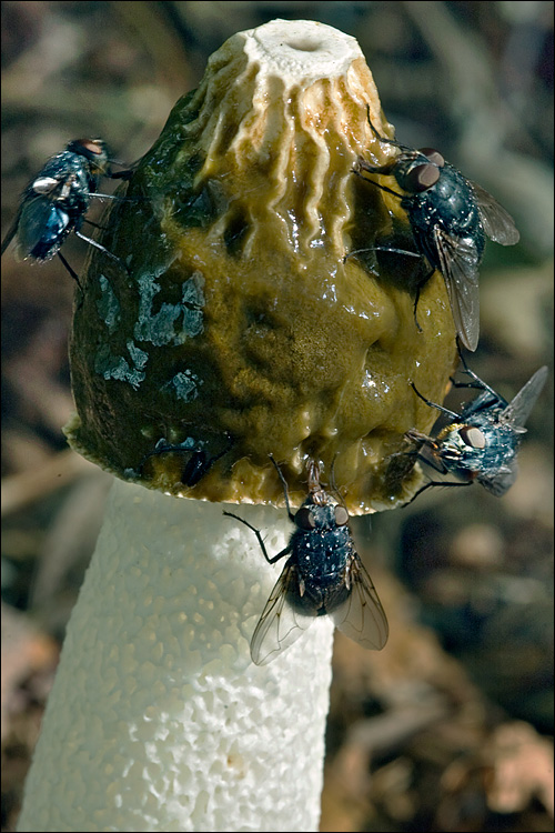 Phallus impudicus L Observation Notes: A scattered but solitary Phallus impudicus specimen growing on a light mixed wood with some ground vegetation, flysh bedrock, flat terrain, mostly in shade, with an average precipitations ~3.000 mm/year, average temperature 8-10 degrees C, elevation 440 metres. Location: West of Bovec, near the trail to Plužna village, East Julian Alps, Posočje, Slovenia. For more information about this, see the observation page at Mushroom Observer.